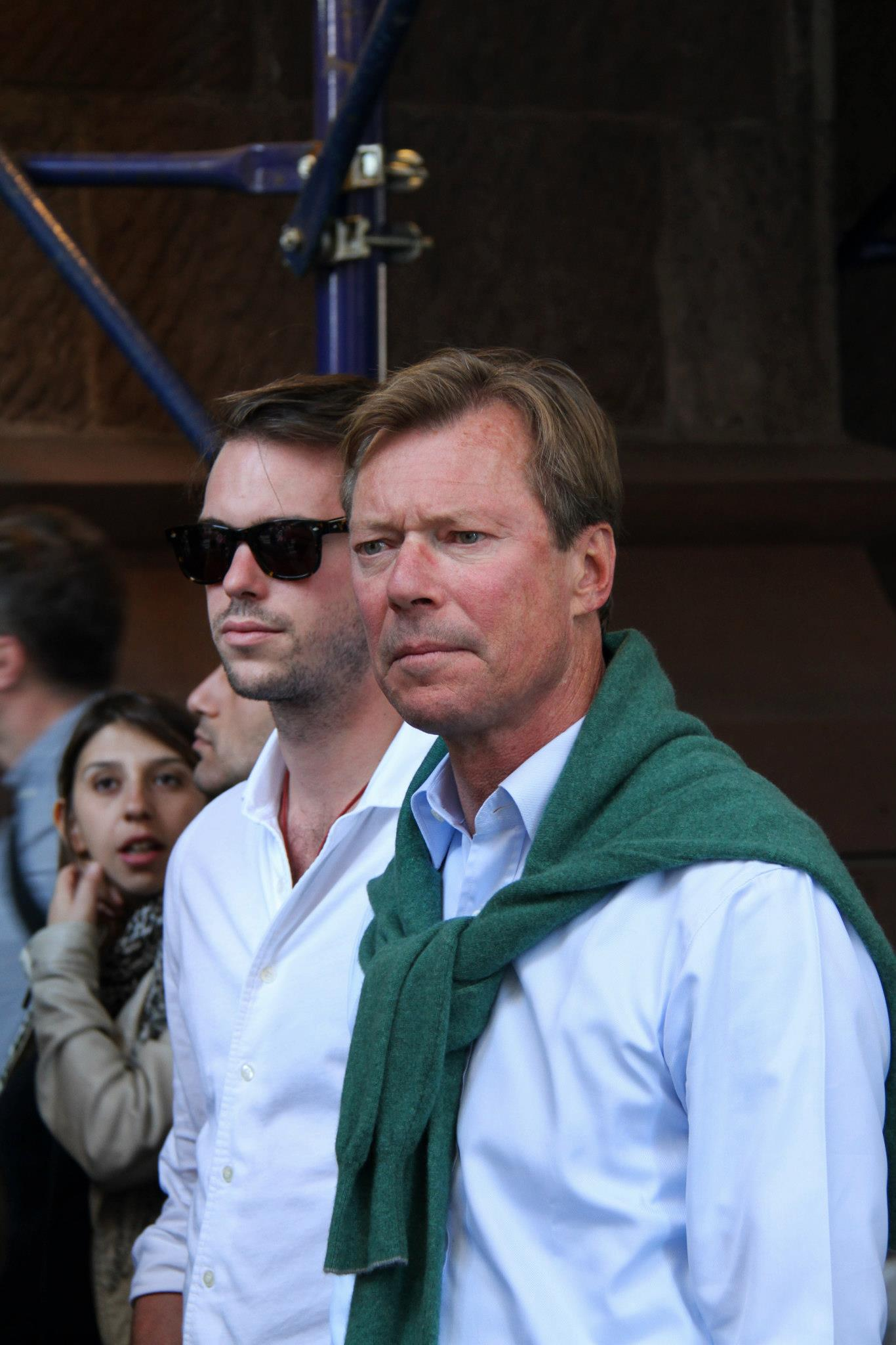 Henri, Grand Duke of Luxembourg in New York